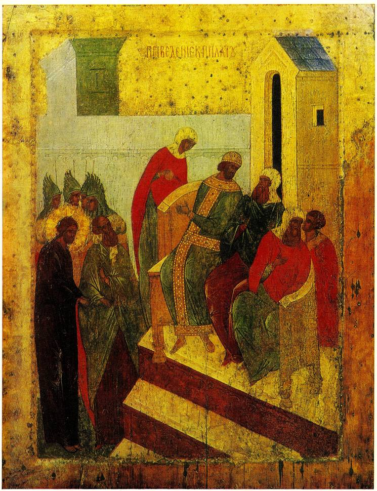 Pilate judgement (icon)